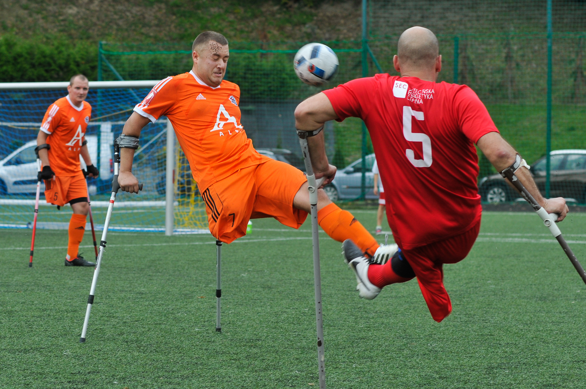 Amp Soccer, Amp football. Amp Fubol Ekstraklasa Poland. League Cup. Amputee football. Sports persons with disabilities